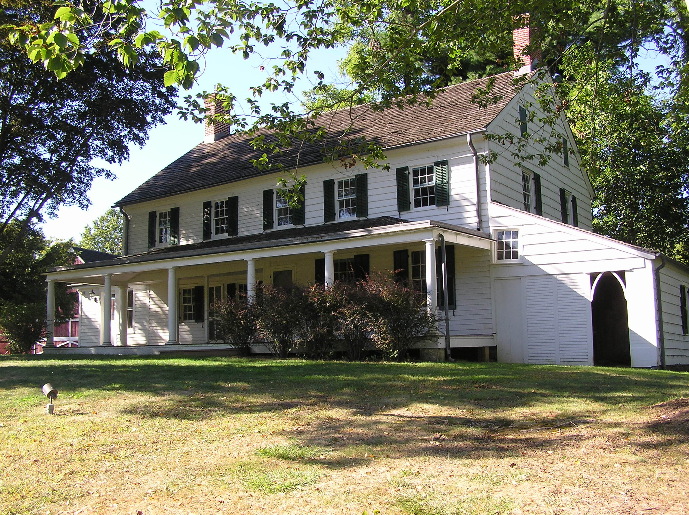 Parker Homestead The Parker Homestead located at 235 Rumson Road in Little Silver, Monmouth County, New Jersey.